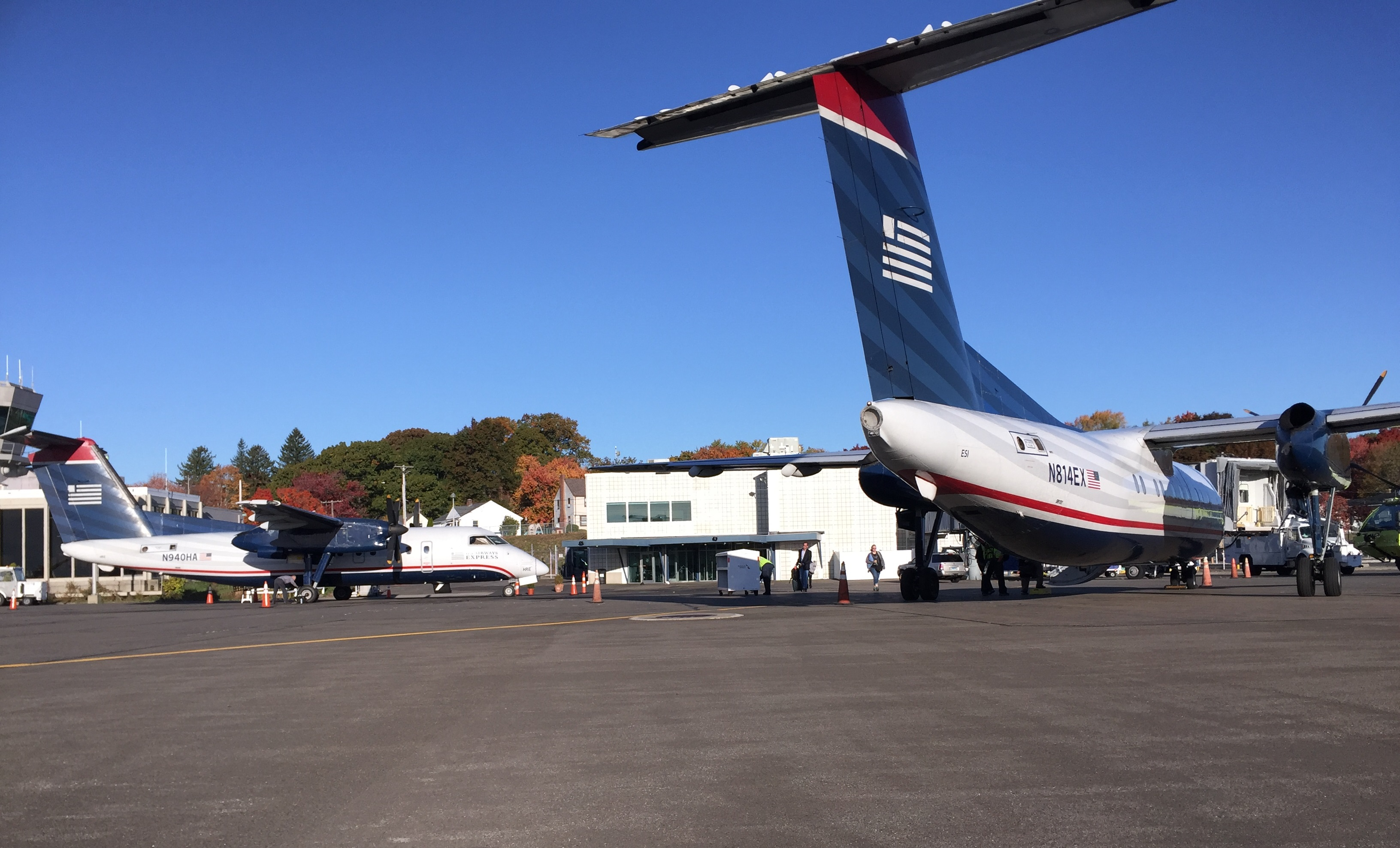 Airport Administration Building (left), Passenger Terminal (right) and two US Airways Express aircraft seen from West Ramp, October 2015.